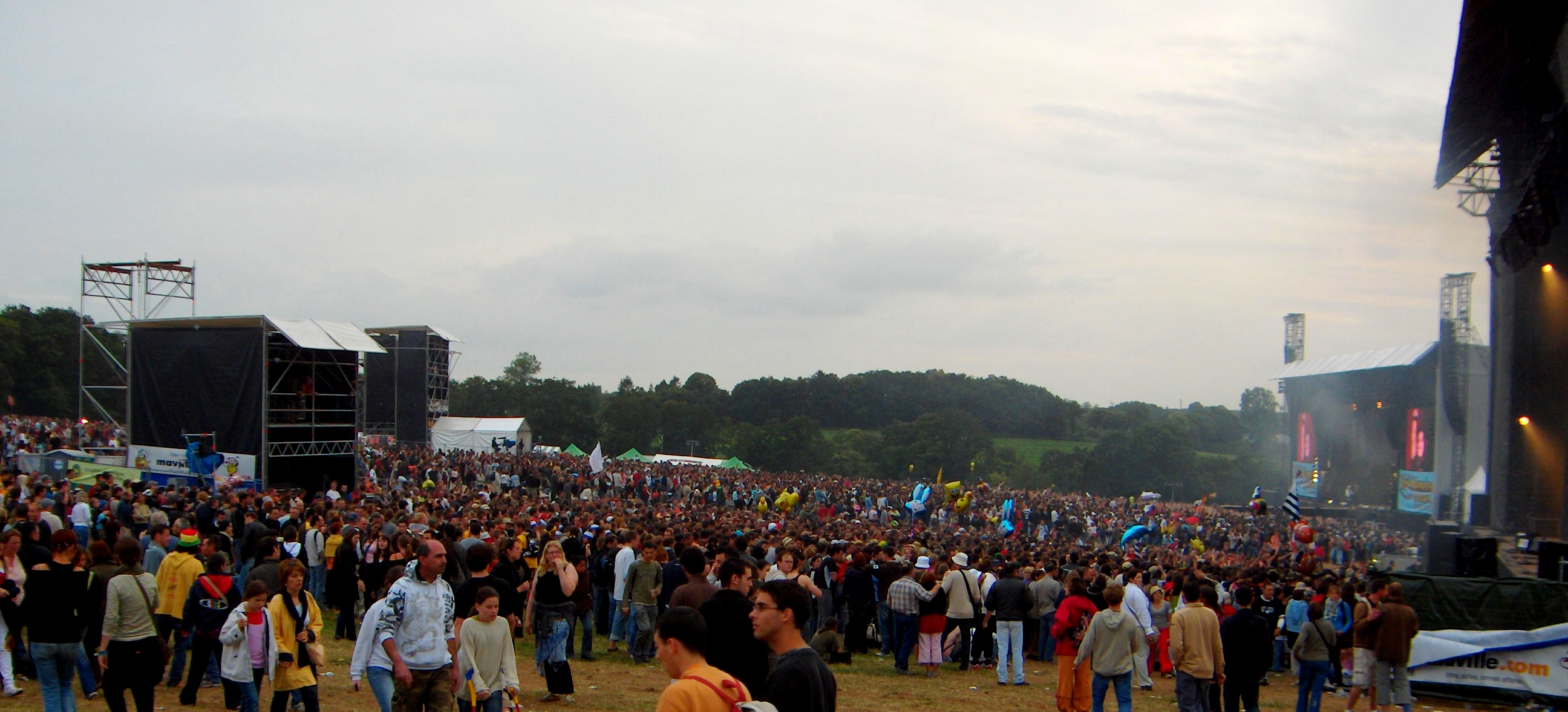 The two main scenes Festival des Terre-Neuvas in Bobital, France, 2007